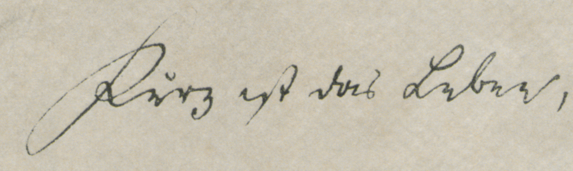 German handwriting of 19th century with typical "long s" within a word versus terminal "round s"